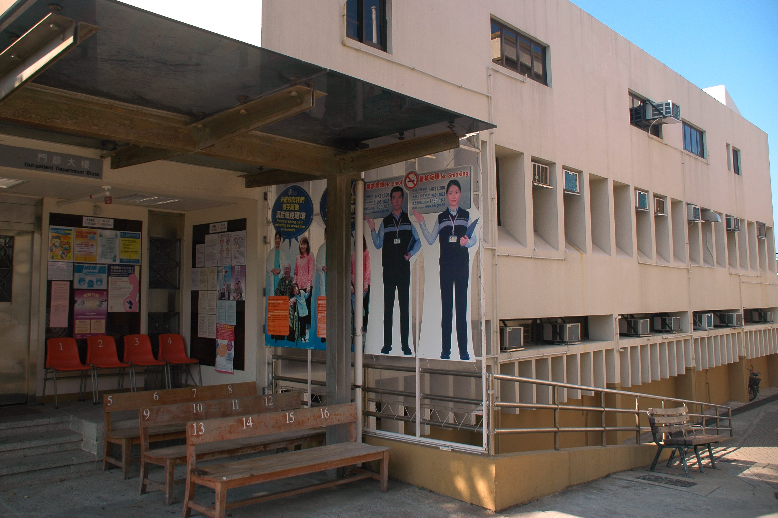 Out-patient Department Block, St. John Hospital, Cheung Chau, Hong Kong.